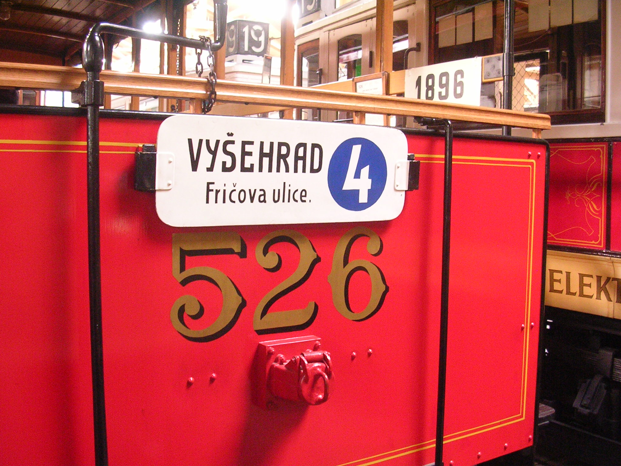 Střešovice, Prague, the Czech Republic. Střešovice tram depot and transport museum. A tram trailer.